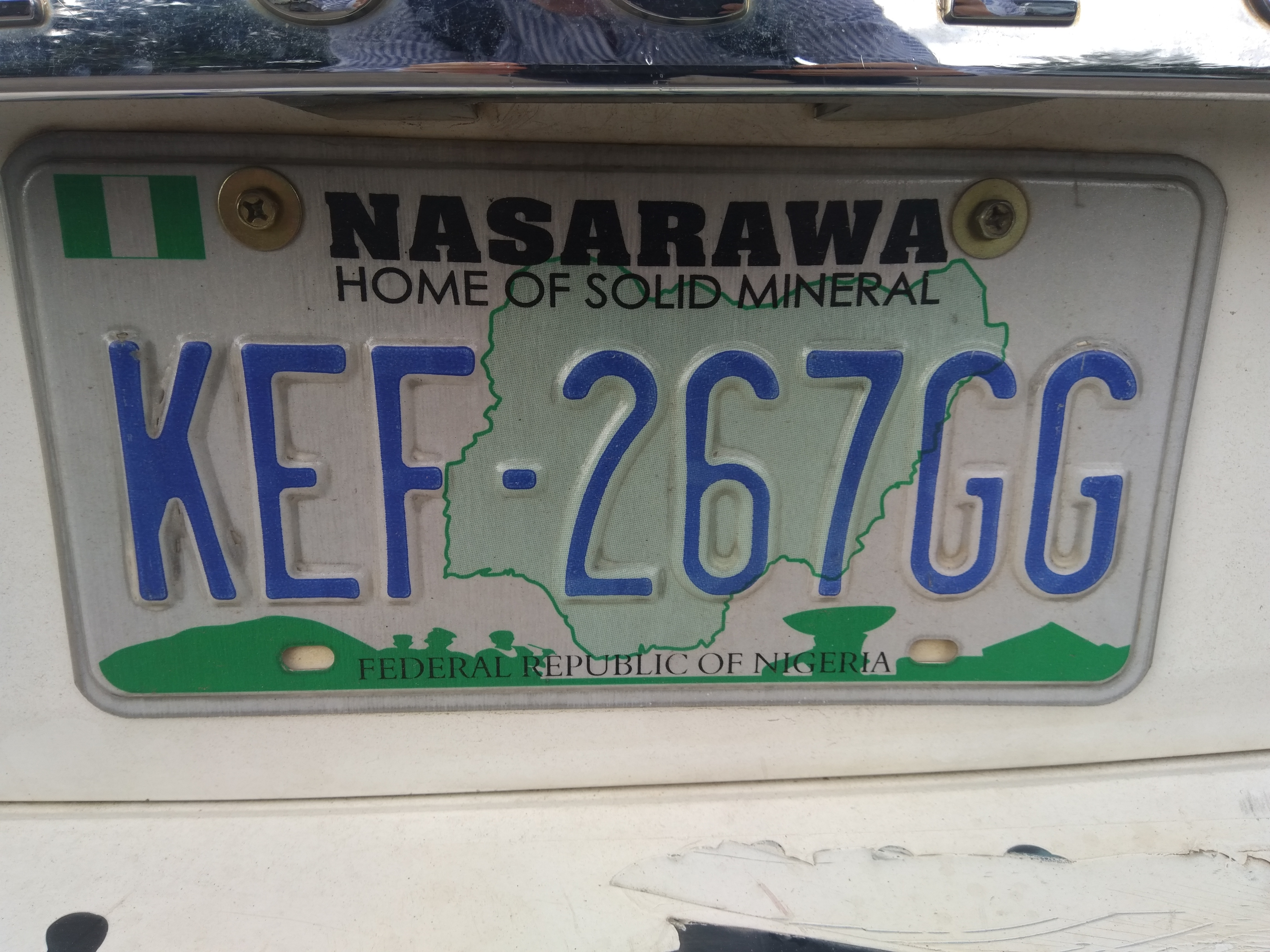 Nigerian number plate Nasarawa State